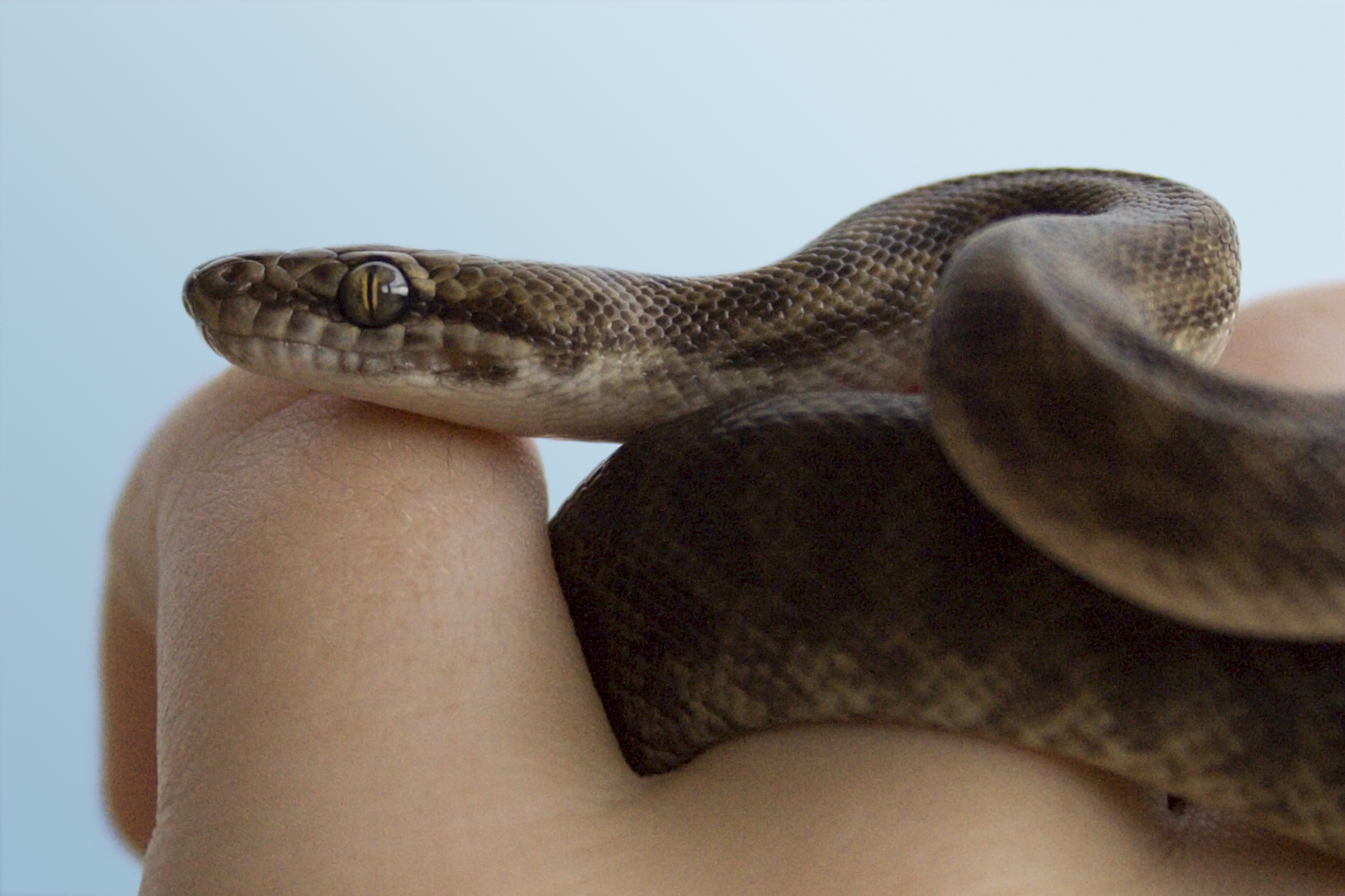 Snapshot of my 3 month old Children's Python, Salazar.